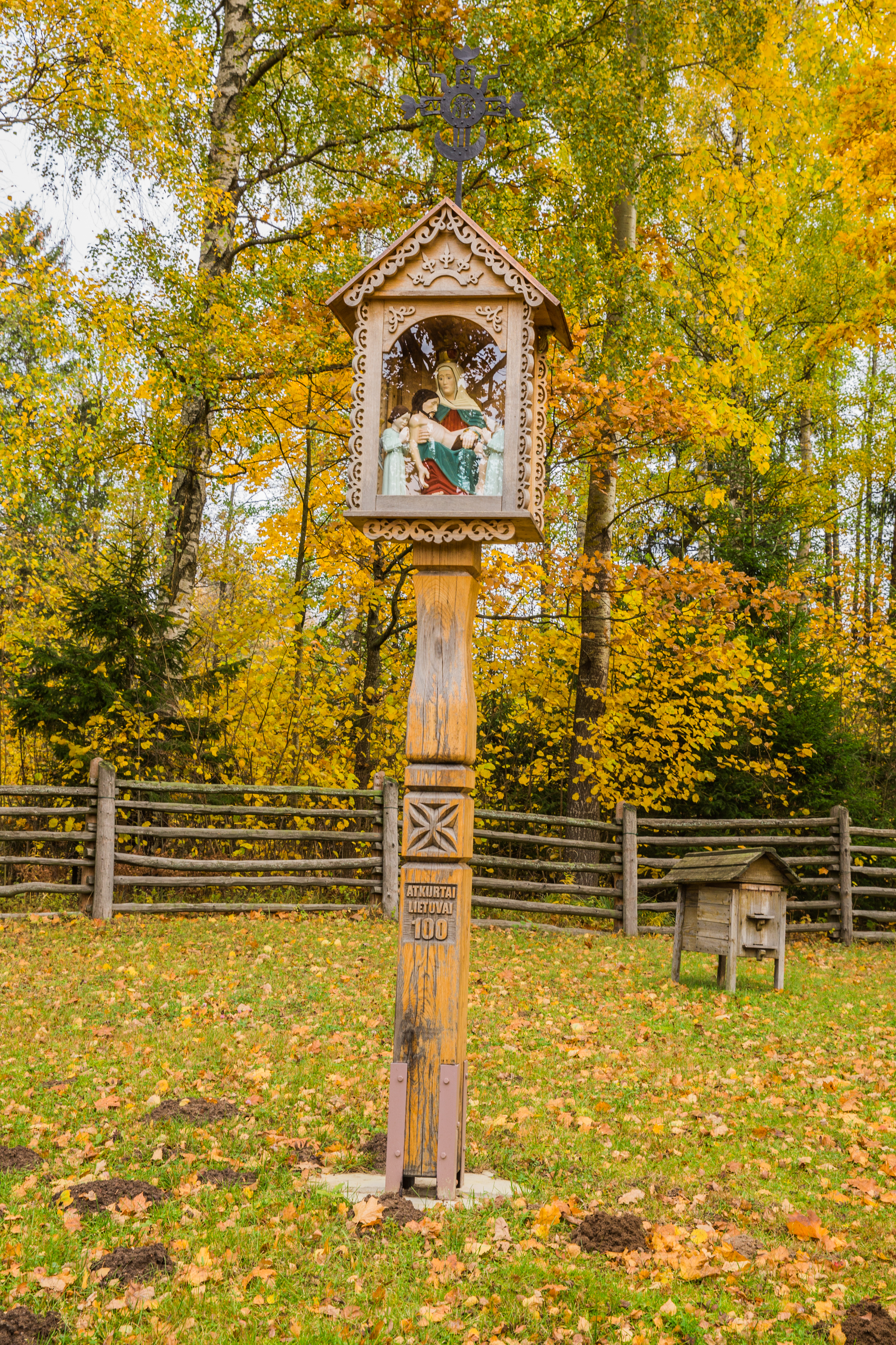 May devotions to the Blessed Virgin Mary (Museum of the Samogitian village)